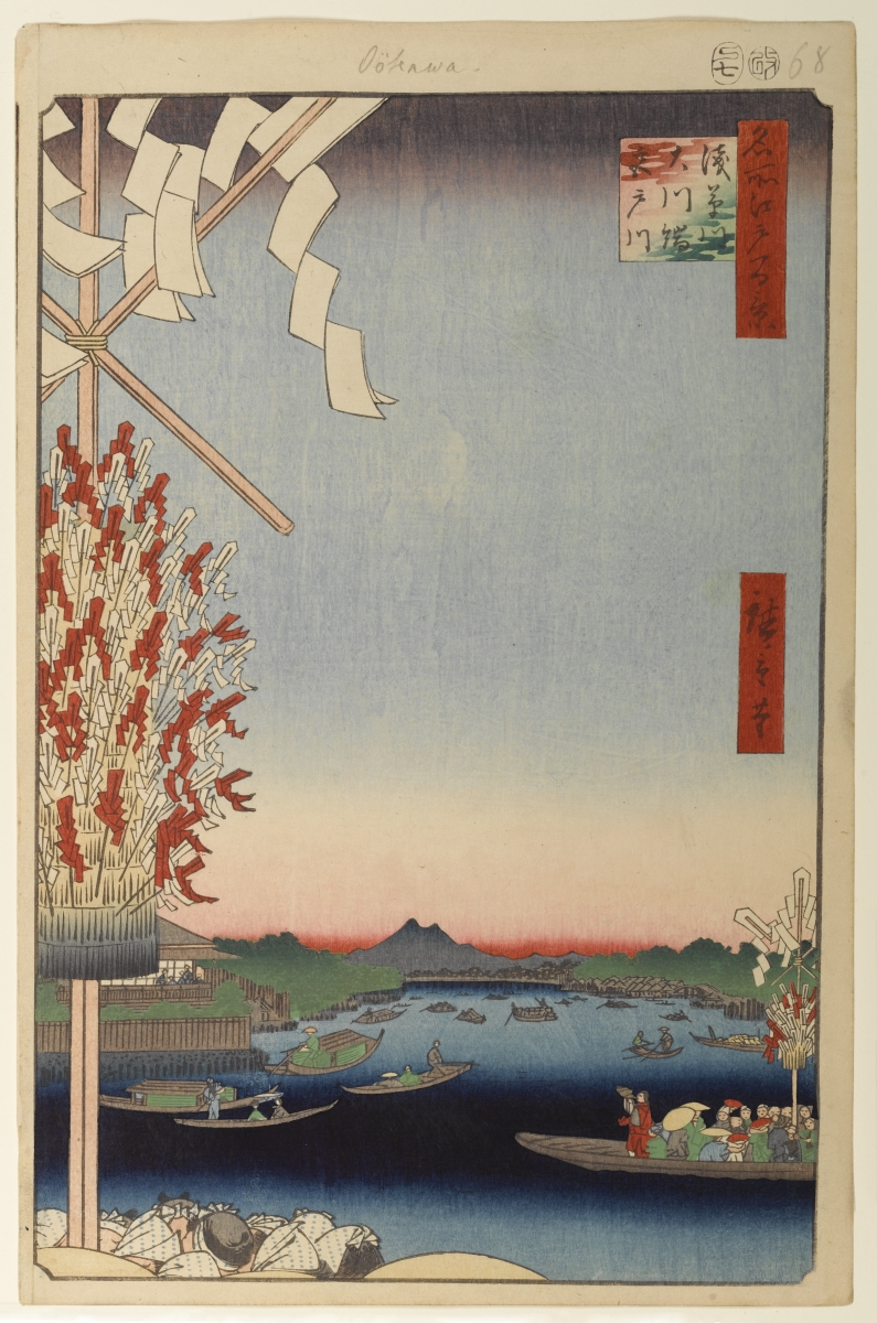 Part of the series One Hundred Famous Views of Edo, no. 060, part 2: Summer.